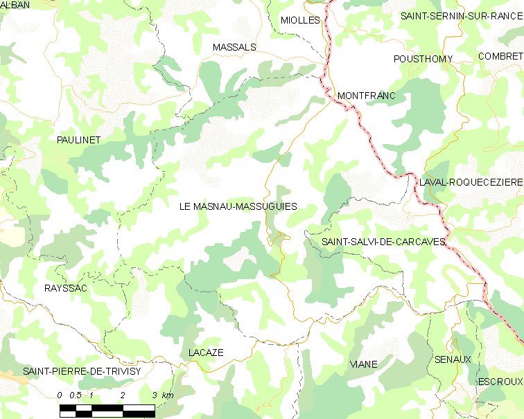 Map commune FR insee code 81158.png - Le Masnau-Massuguiès